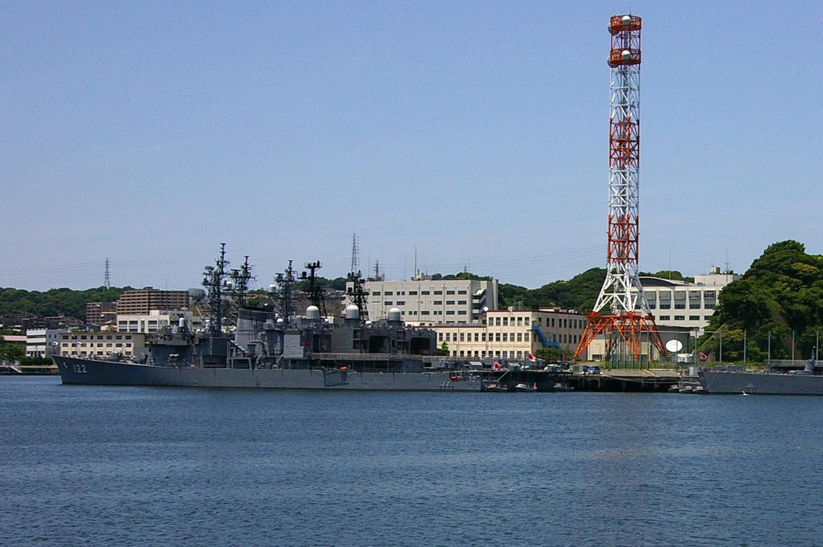 Self Defense Fleet Headquarters in Funakoshi-chō, Yokosuka, Japan.